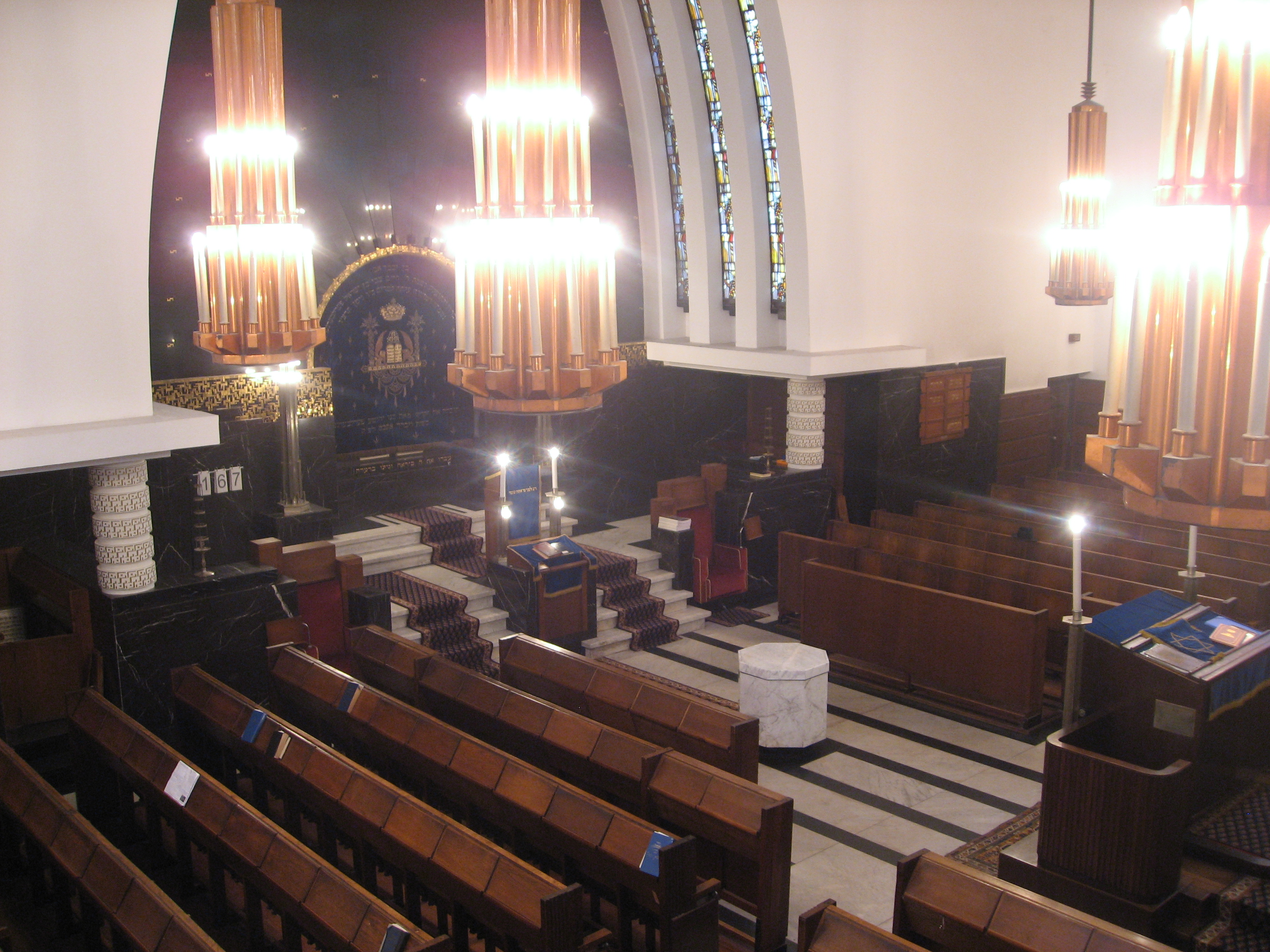 Interior of the Raw Aaron Schuster Synagogue